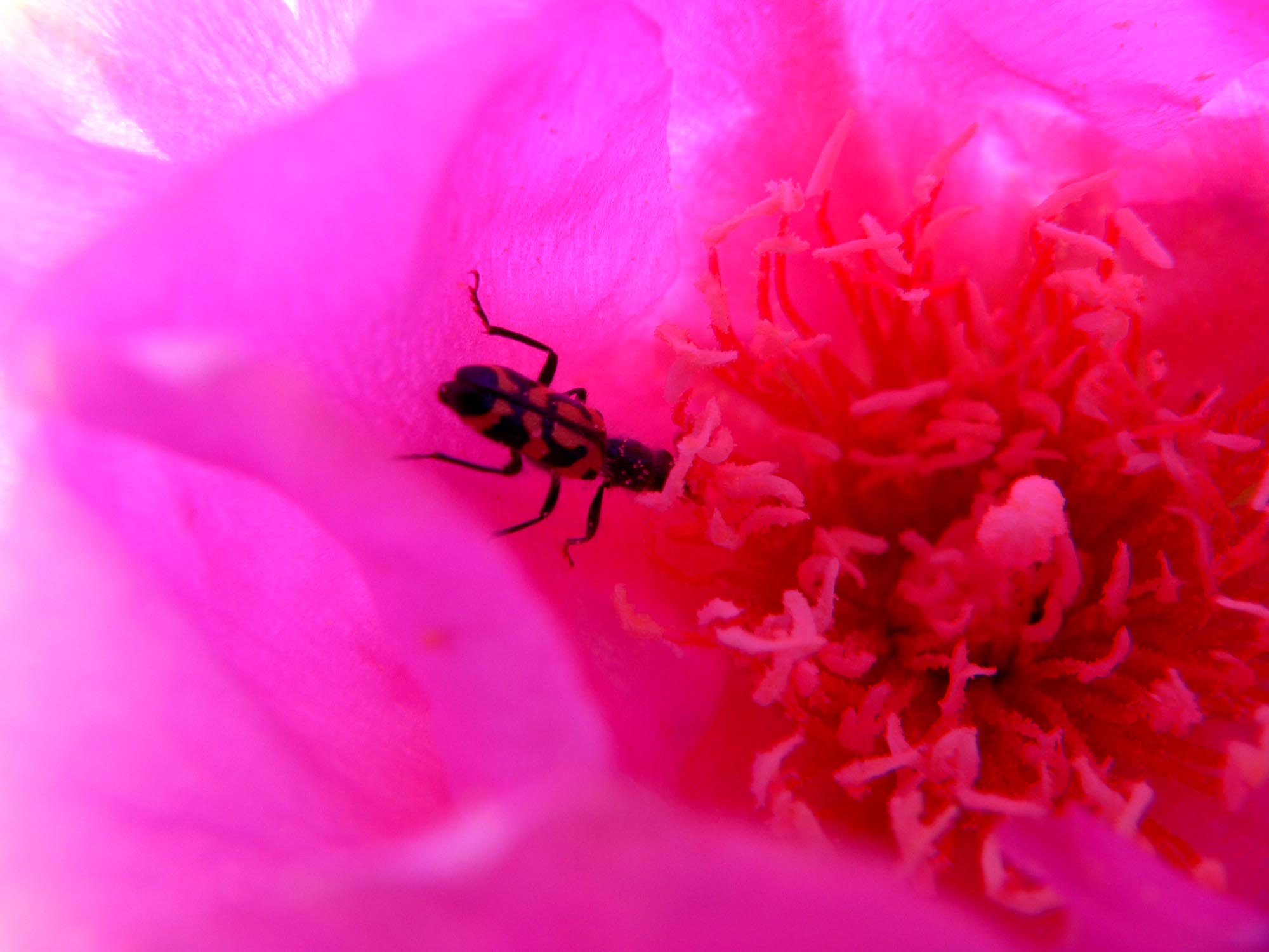 Photo of Opuntia basilaris flower with unidentified beetle inside on slopes of Frenchman Mountain east of Las Vegas, Nevada